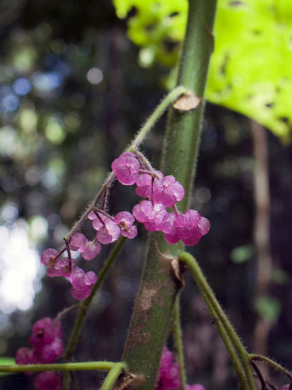 Stinging Tree